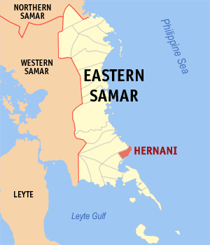 Map of Eastern Samar showing the location of Hernani